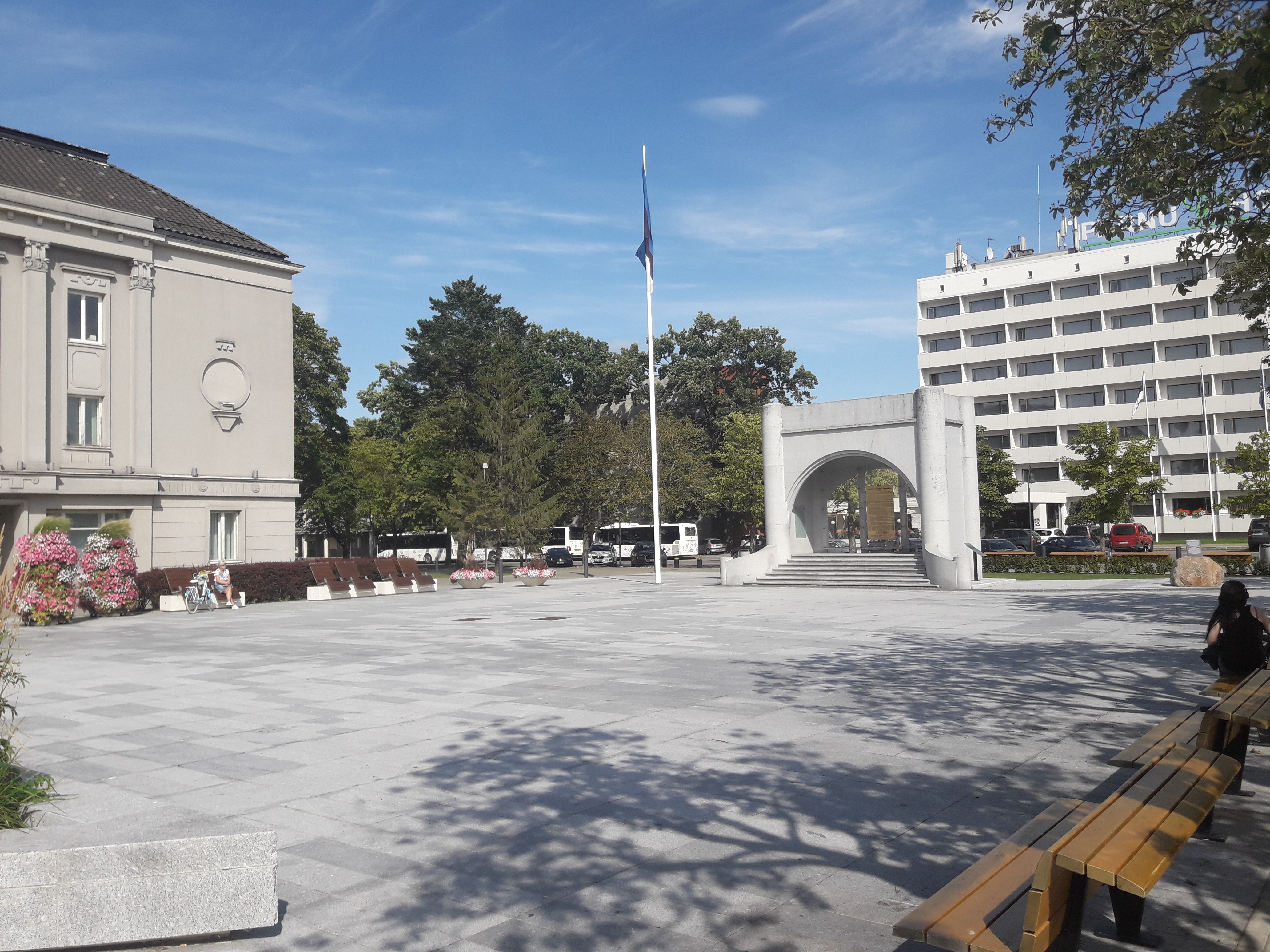 Iseseisvuse väljak, Pärnu